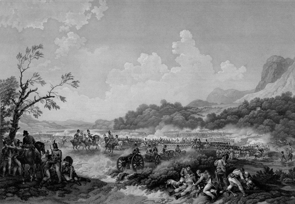 Battle of Maida 1806